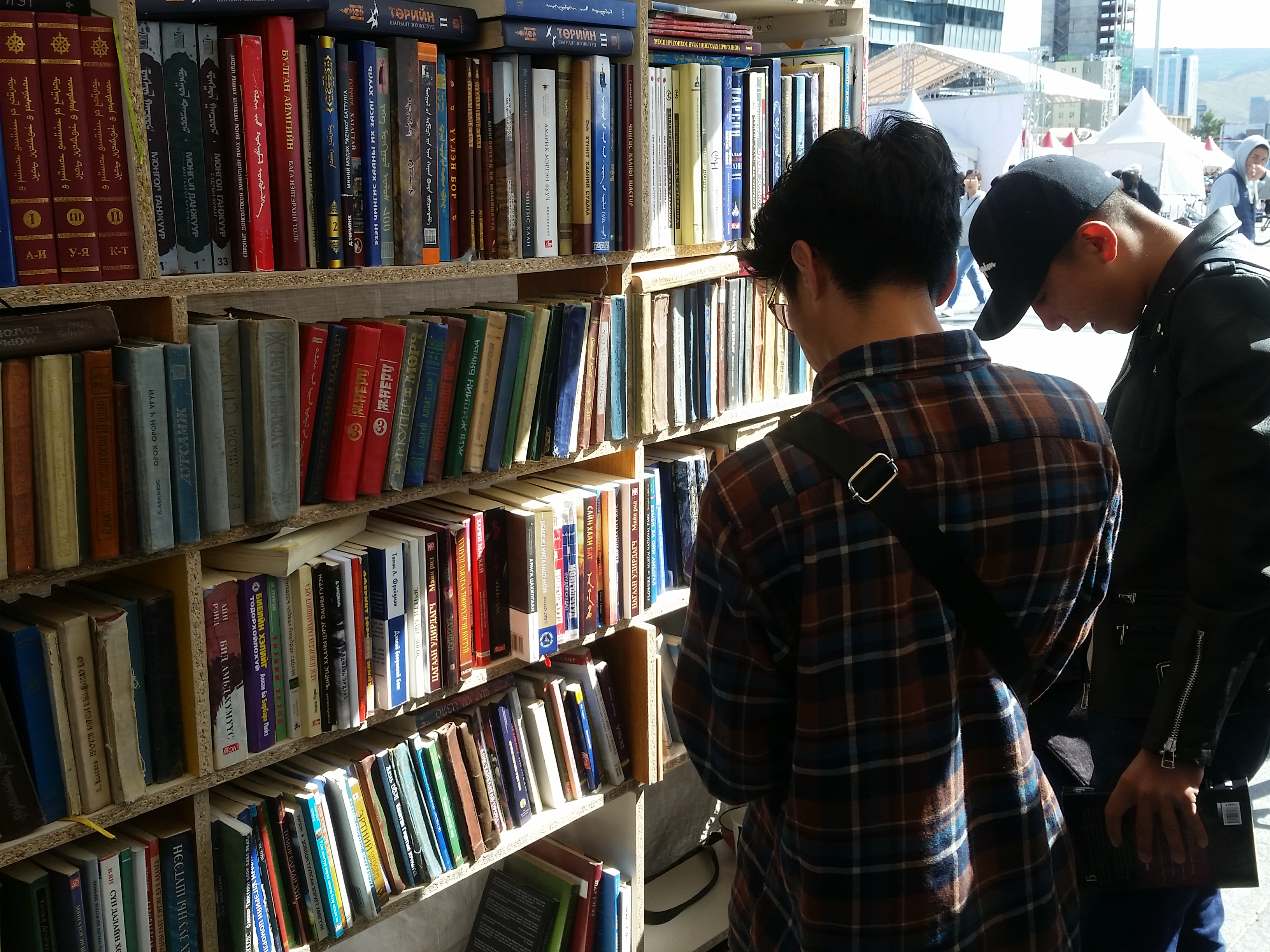 Ulaanbaatar book fair 2019 - 6